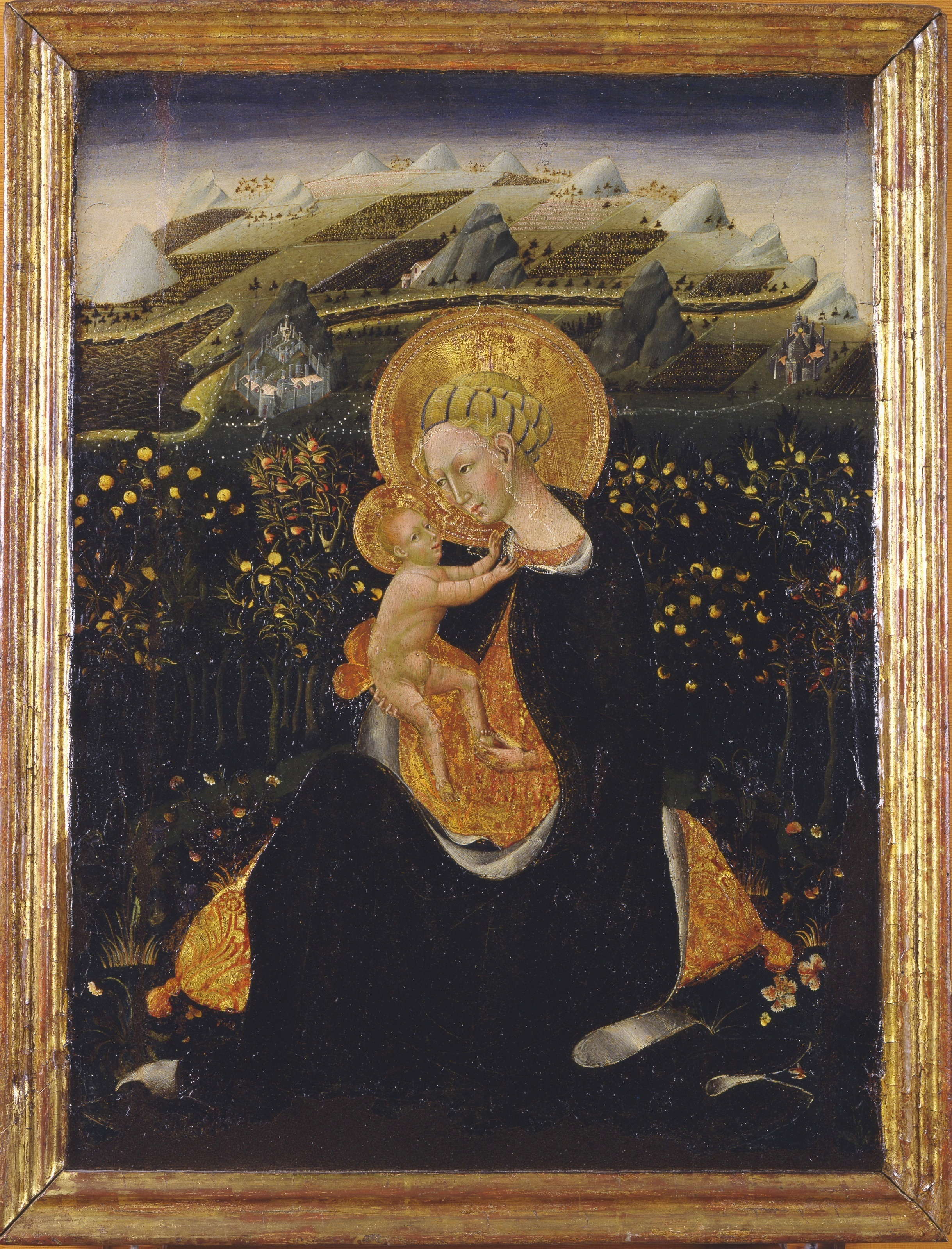 Giovanni di Paolo, Madonna of Humility. Painting in the National Pinacotheque, Siena.